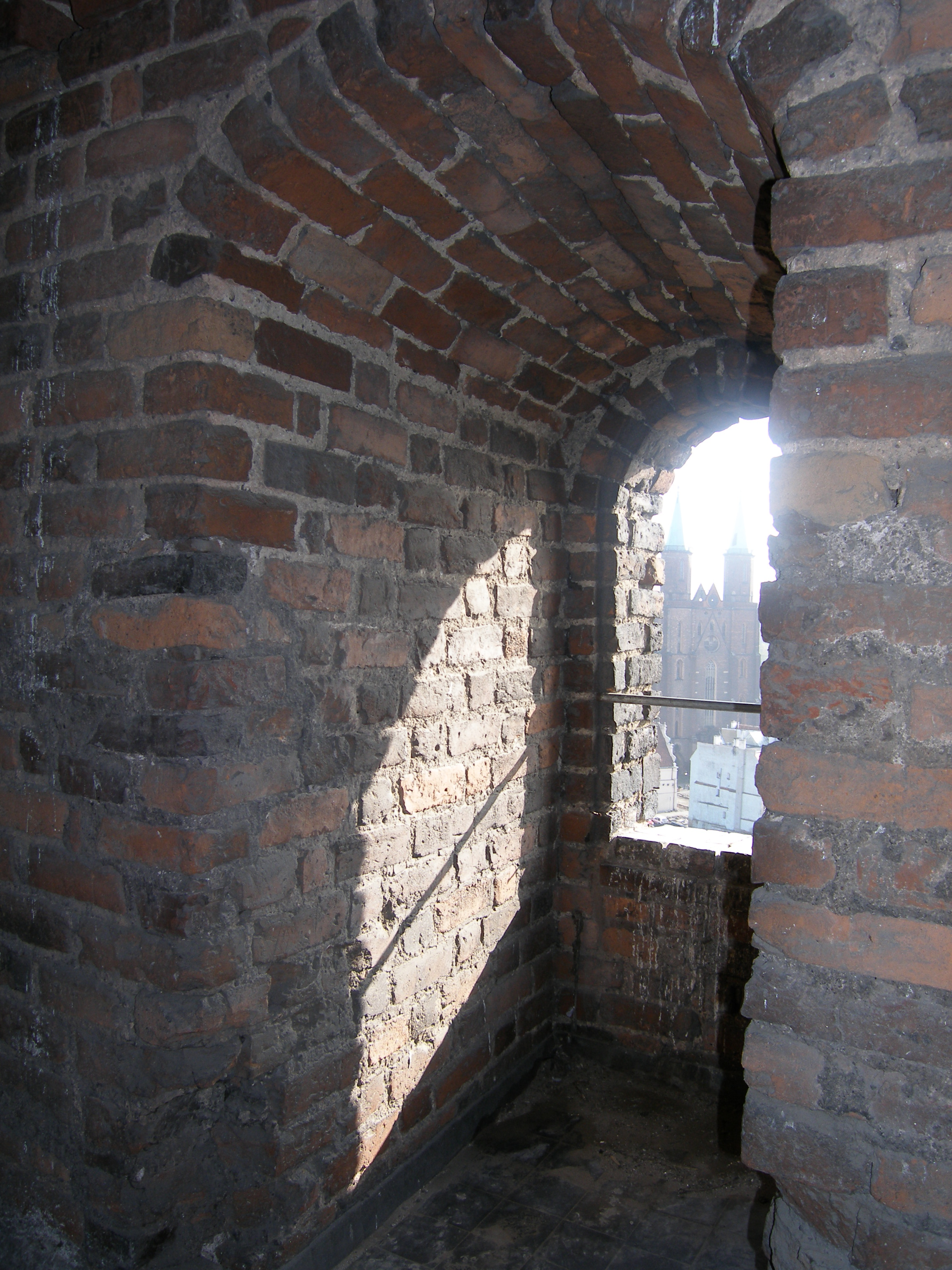 View from the St. Peter's Tower